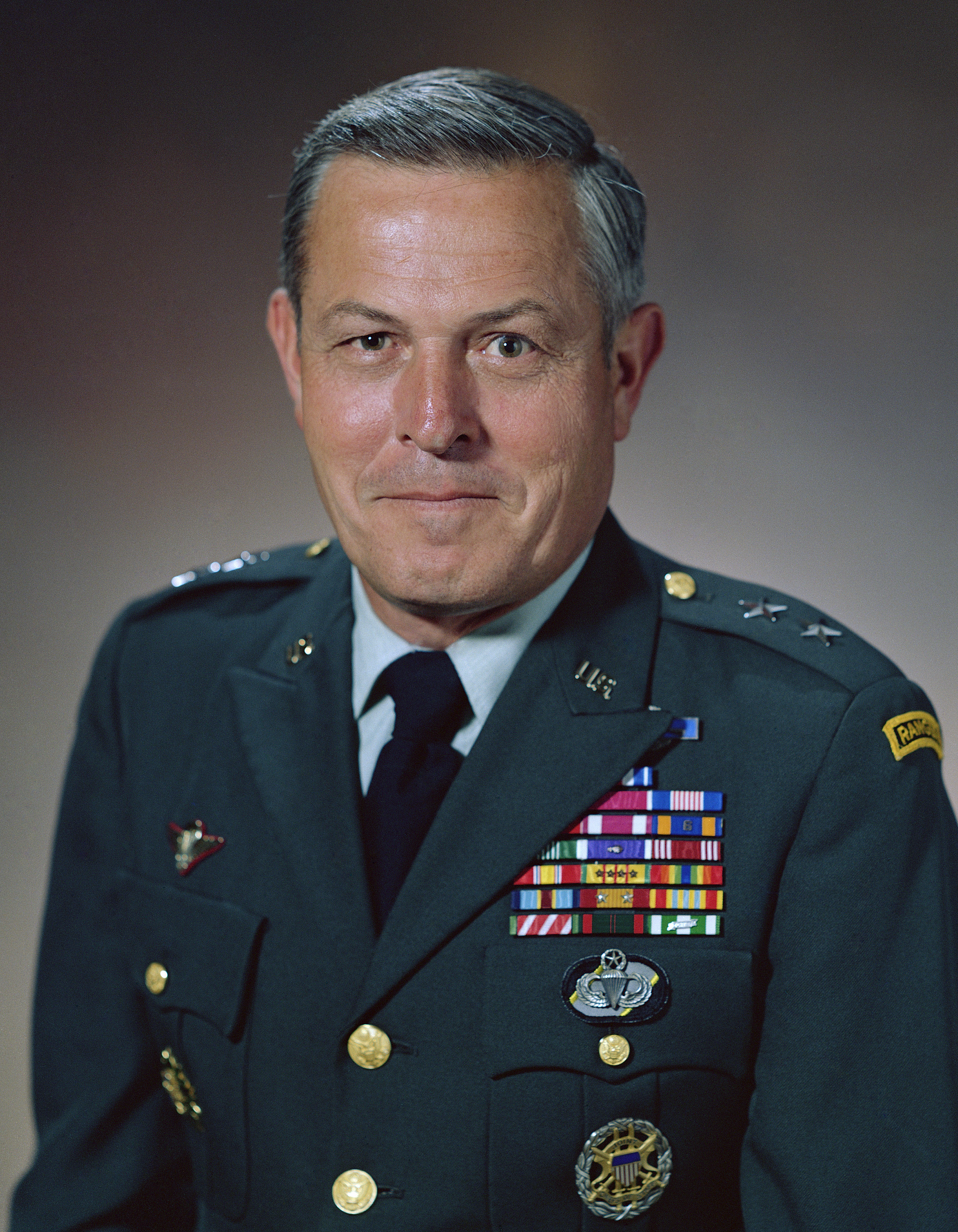 Official picture of US Army Major General Richard A. Scholtes